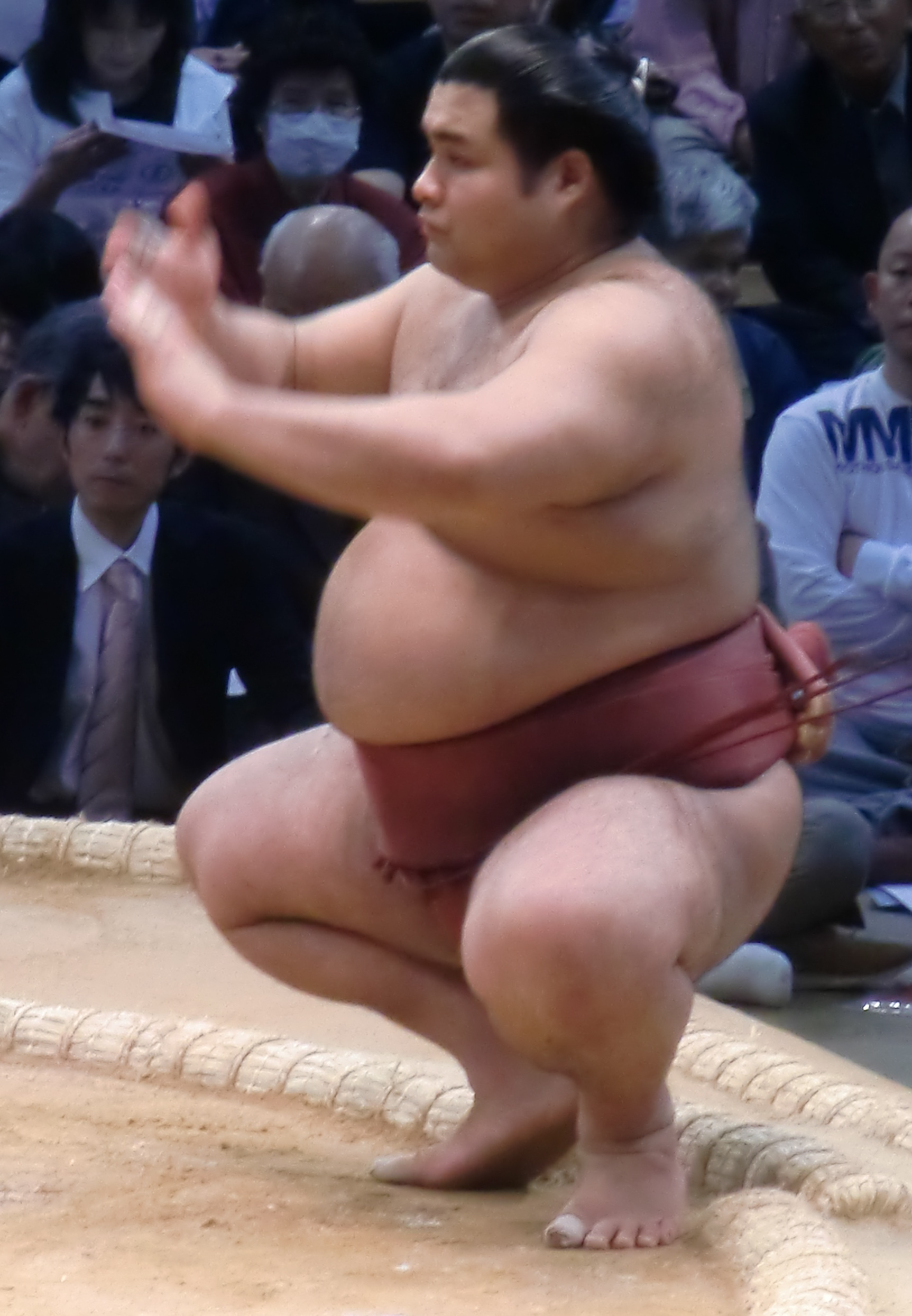 taken at the 2011 Fukuoka November tournament